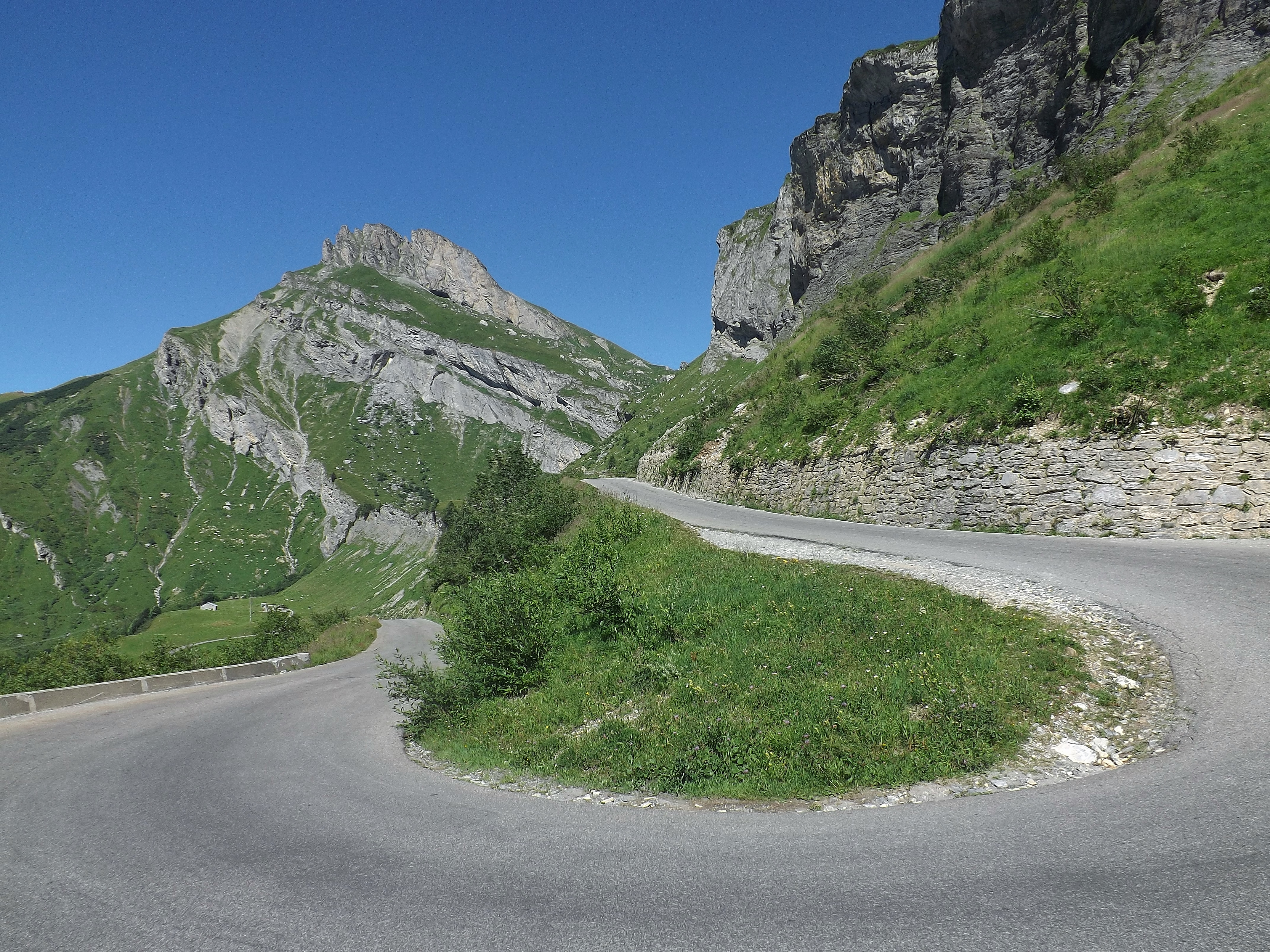 Sight of the French RD 925 road to the Cormet de Roselend pass, here on the heights of the Roselend lake, in Savoie.